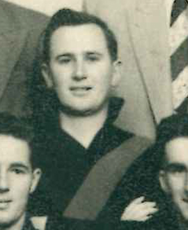 Photograph of Ernie Eiffler in 1945